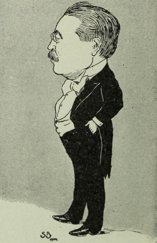 E. W. Hornung